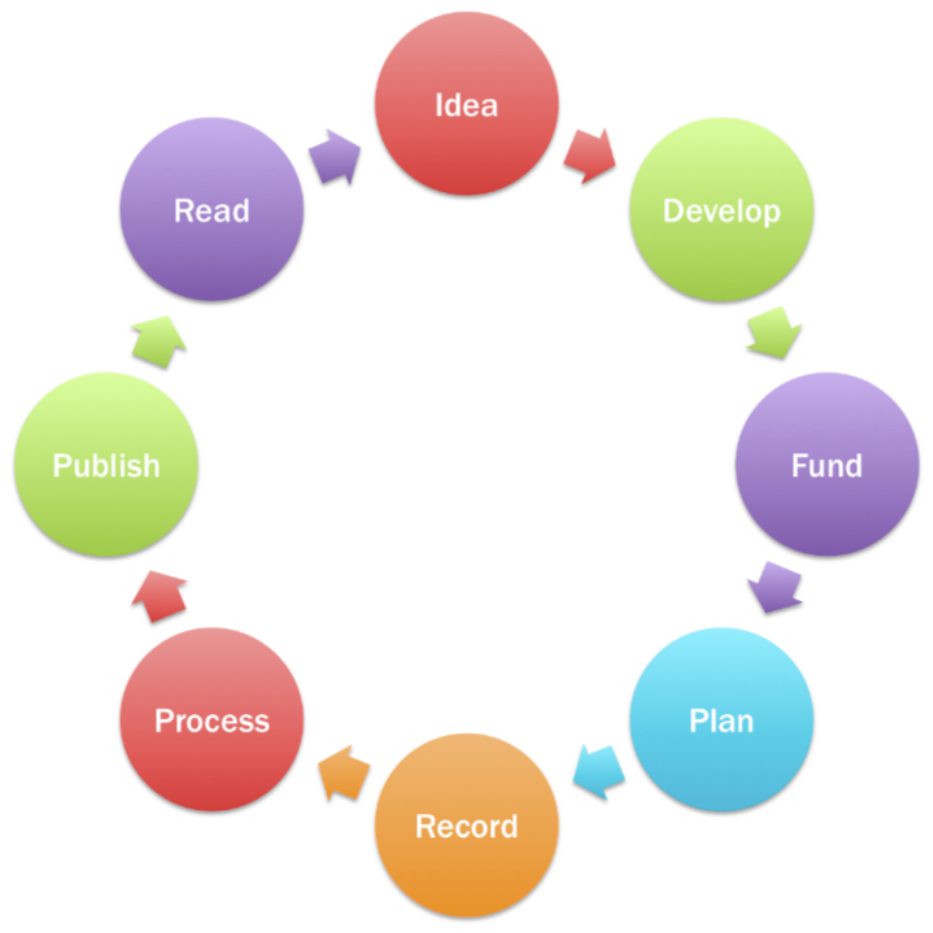 Some of the basic elements of the scientific method, arranged in a cycle to emphasize that it is an iterative process.